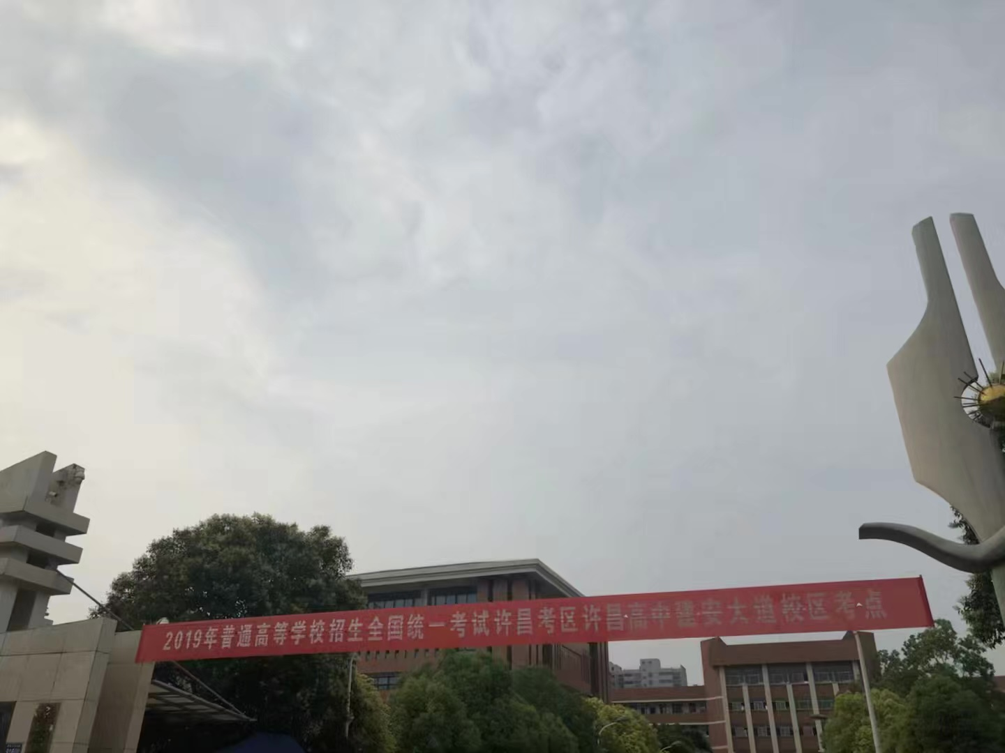 2019年高考